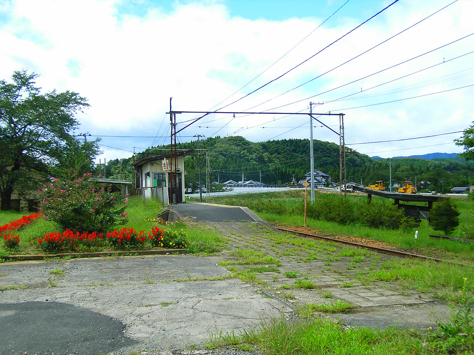 Uguisuzawa Station of the Kurihara Denen Railway. Kurihara, Miyagi prefecture, Japan.